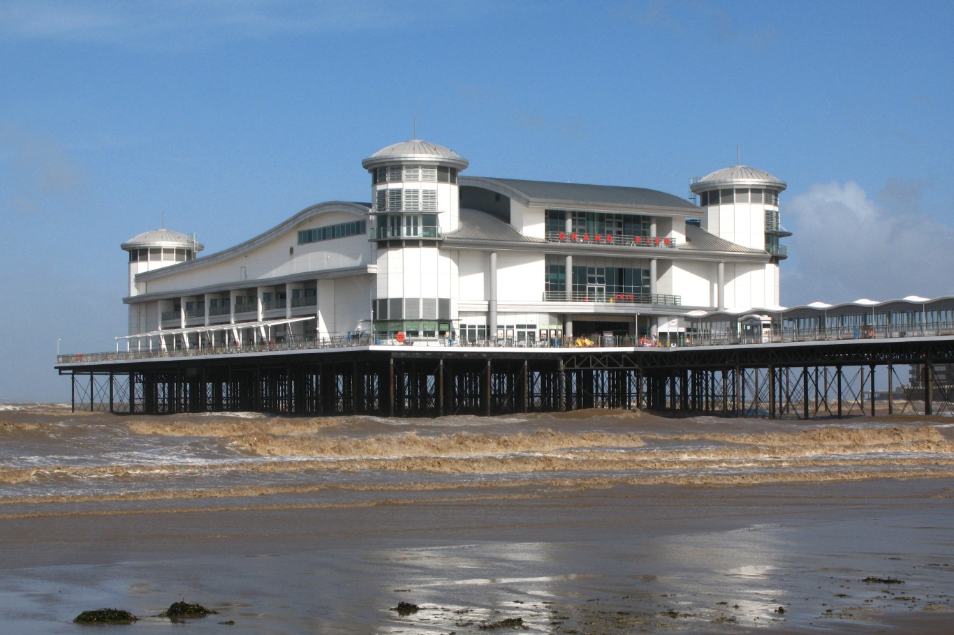 Weston-super-Mare's Grand Pier pavilion, rebuilt after the big fire of 2008.